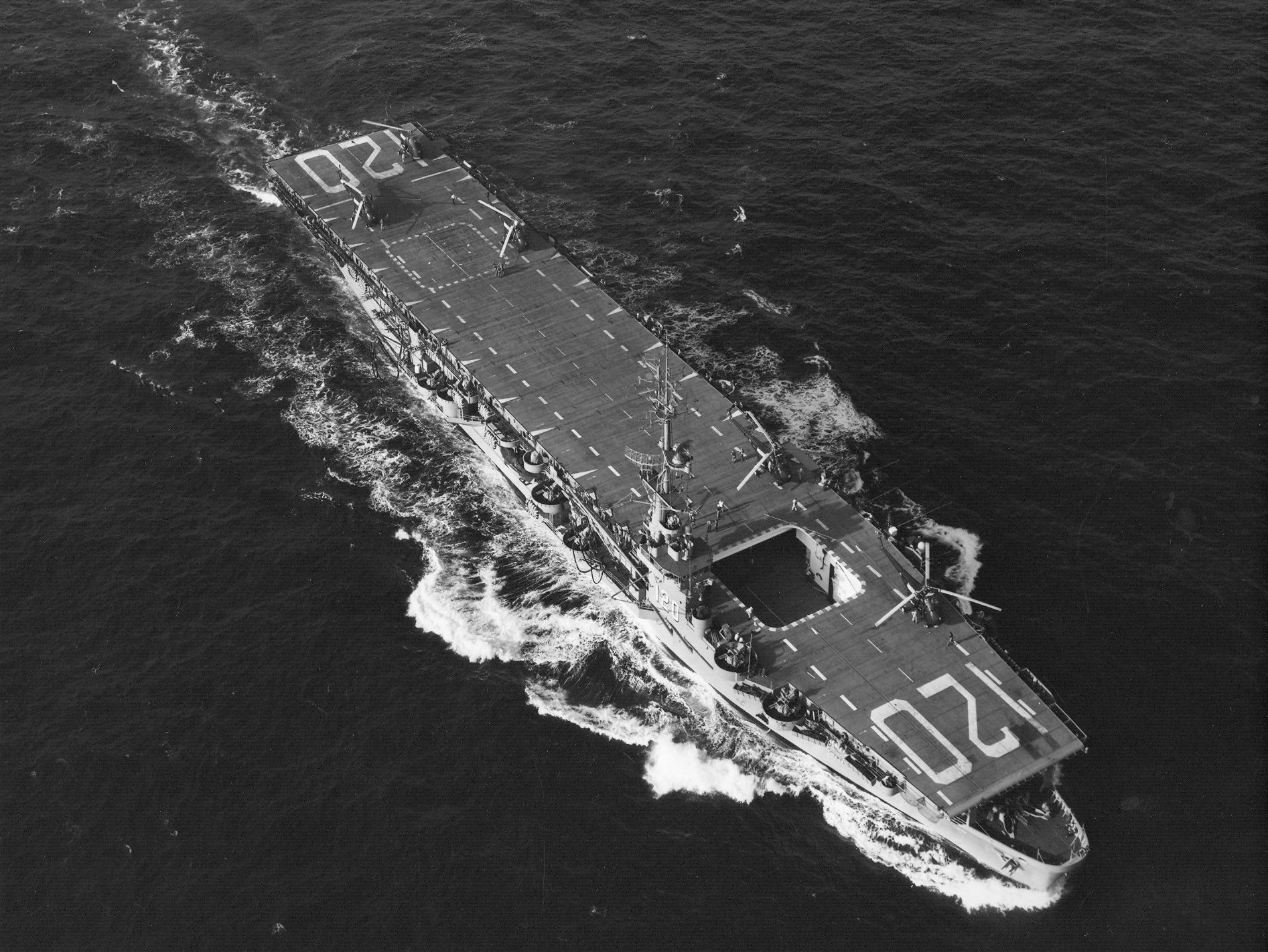 The U.S. Navy escort carrier USS Mindoro (CVE-120) underway with U.S. Marine Corps Sikorsky HRS transport helicopters on deck, on 23 October 1953.